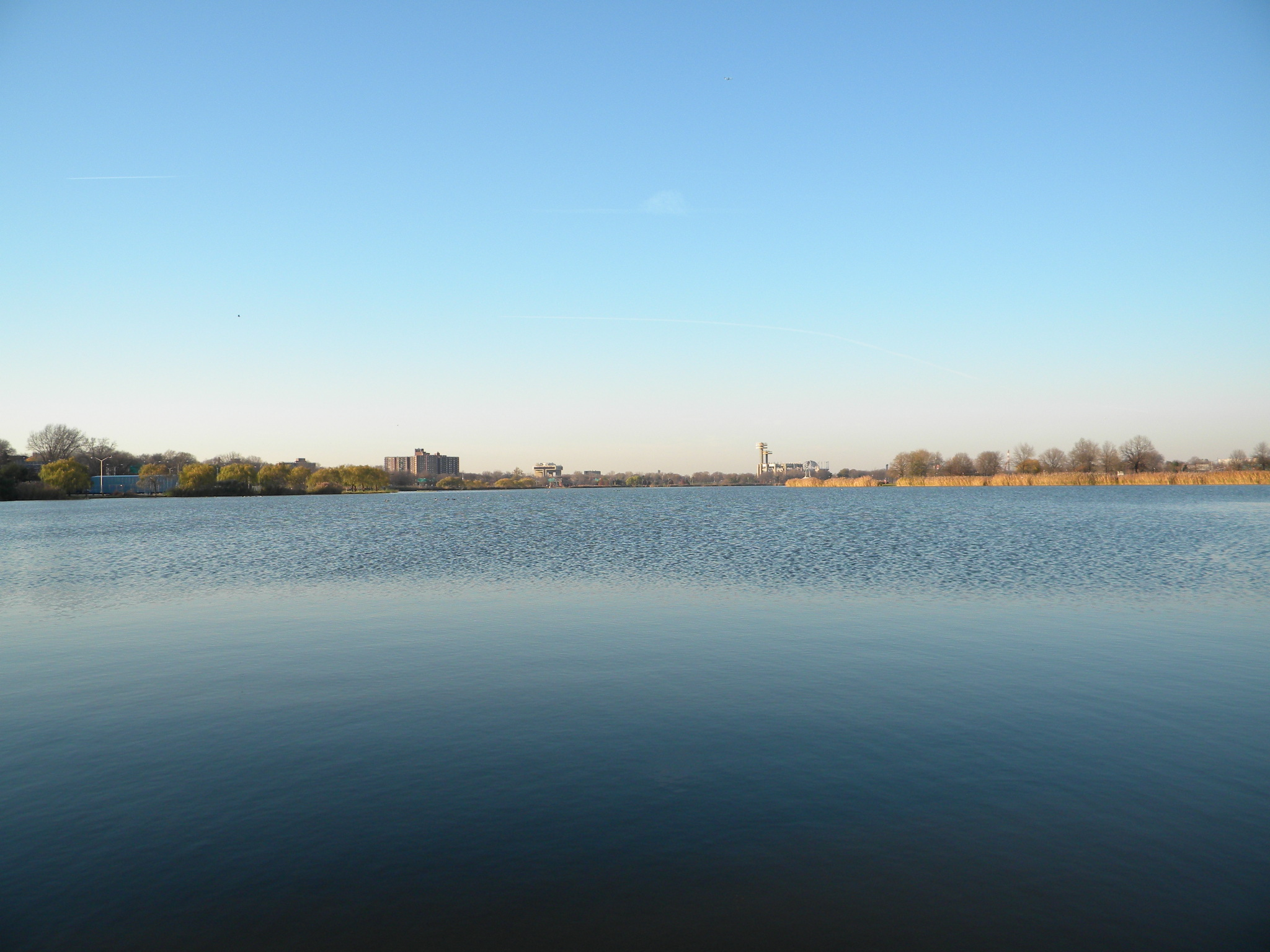 Looking north along Meadow Lake in Flushing Meadow Park on November 29, 2009, with all major park infrastructures in sight, taken from the far Southern side.